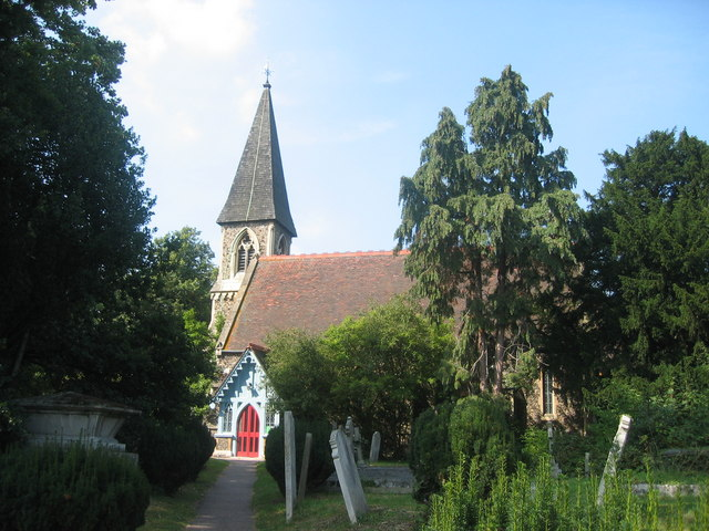 St James Church, Friern Barnet The church of St James The Great, Friern Barnet, is located on the corner of Friern Barnet Lane and Friary Road. The originally Norman church was extensively rebuilt in its present form in 1853.